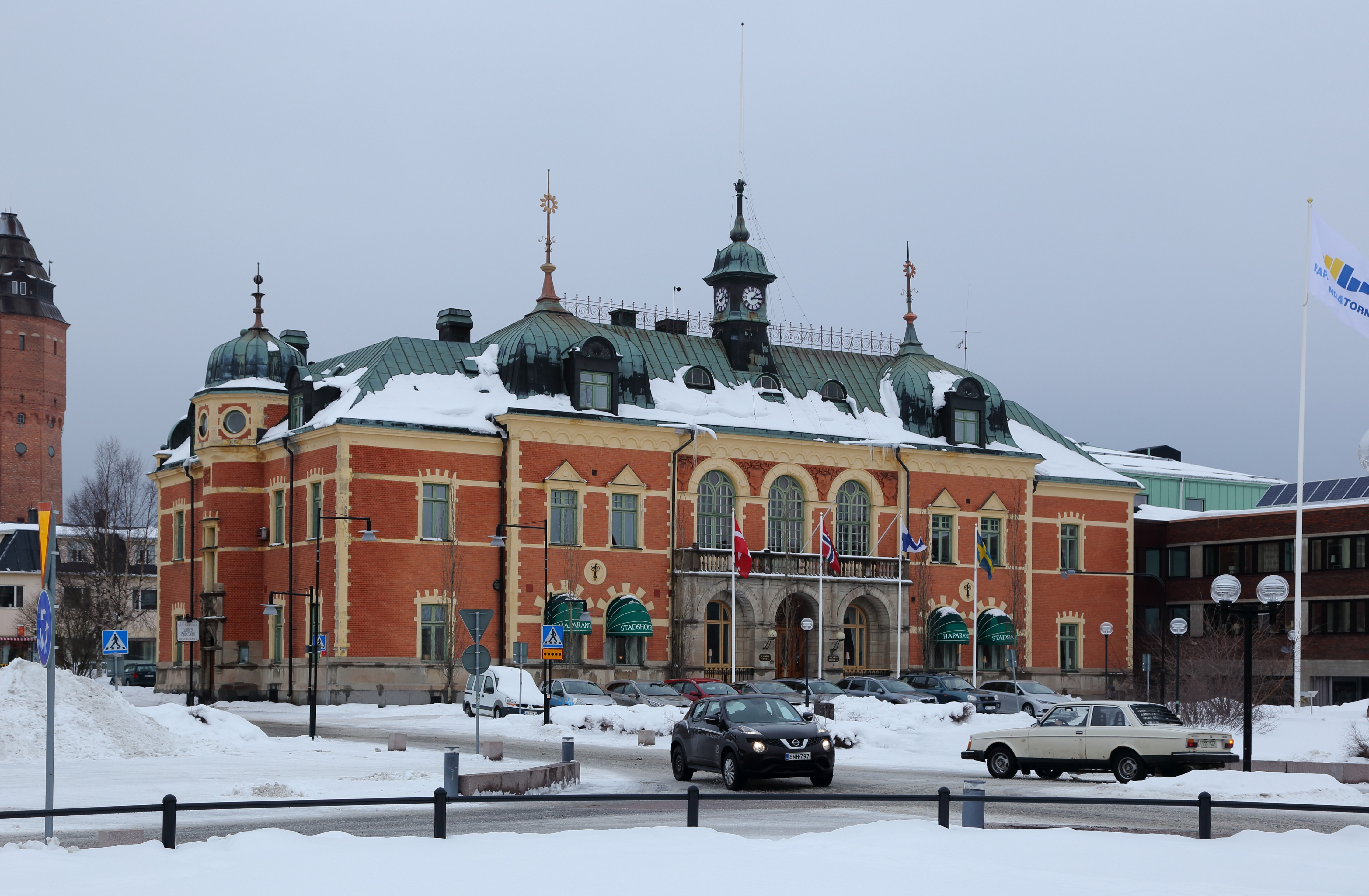 Haparanda stadshotell, a hotel in central Haparanda, Sweden.